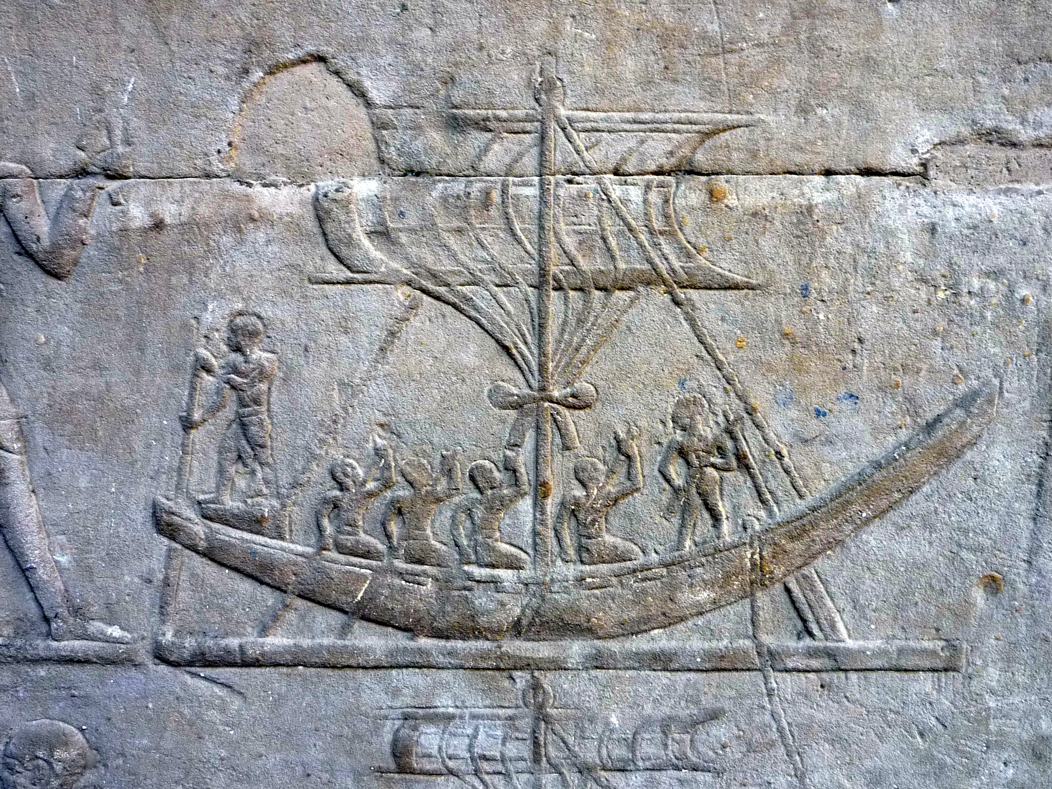 Wall relief in court, temple of Edfu, Egypt